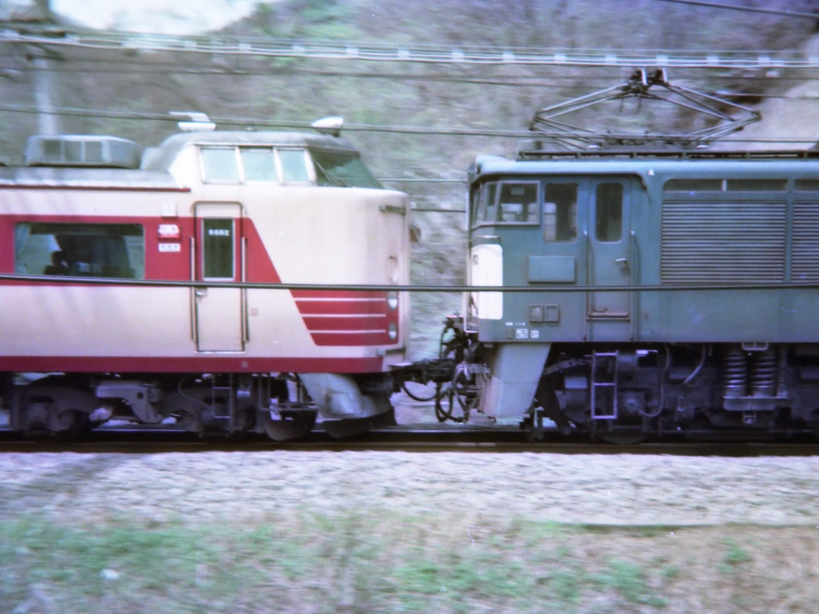 East Japan Railway Company EF63 electric locomotives with East Japan Railway Company 489 series EMU for the limited express Asama, on Shin'etsu Main Line between Yokokawa and Karuizawa